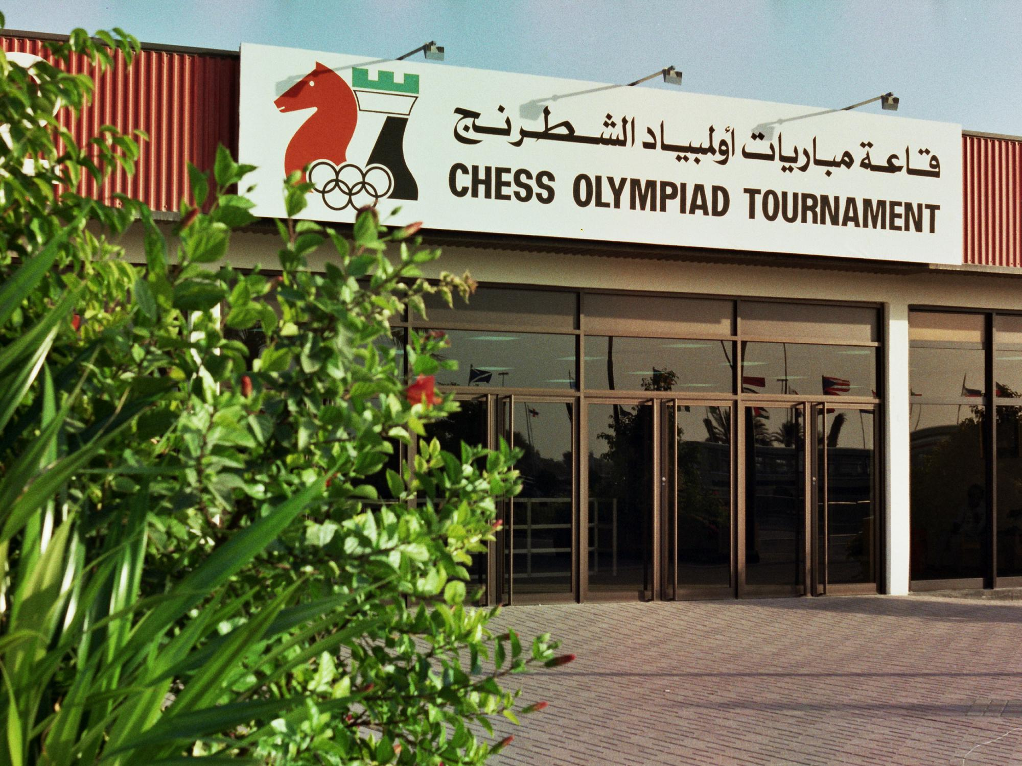 Entry to the place where Chess Olympiad 1986 in Dubai is held, Photographer Gerhard Hund.